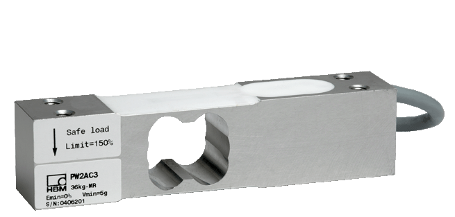 Load cell or force transducer spring element, type double bending beam